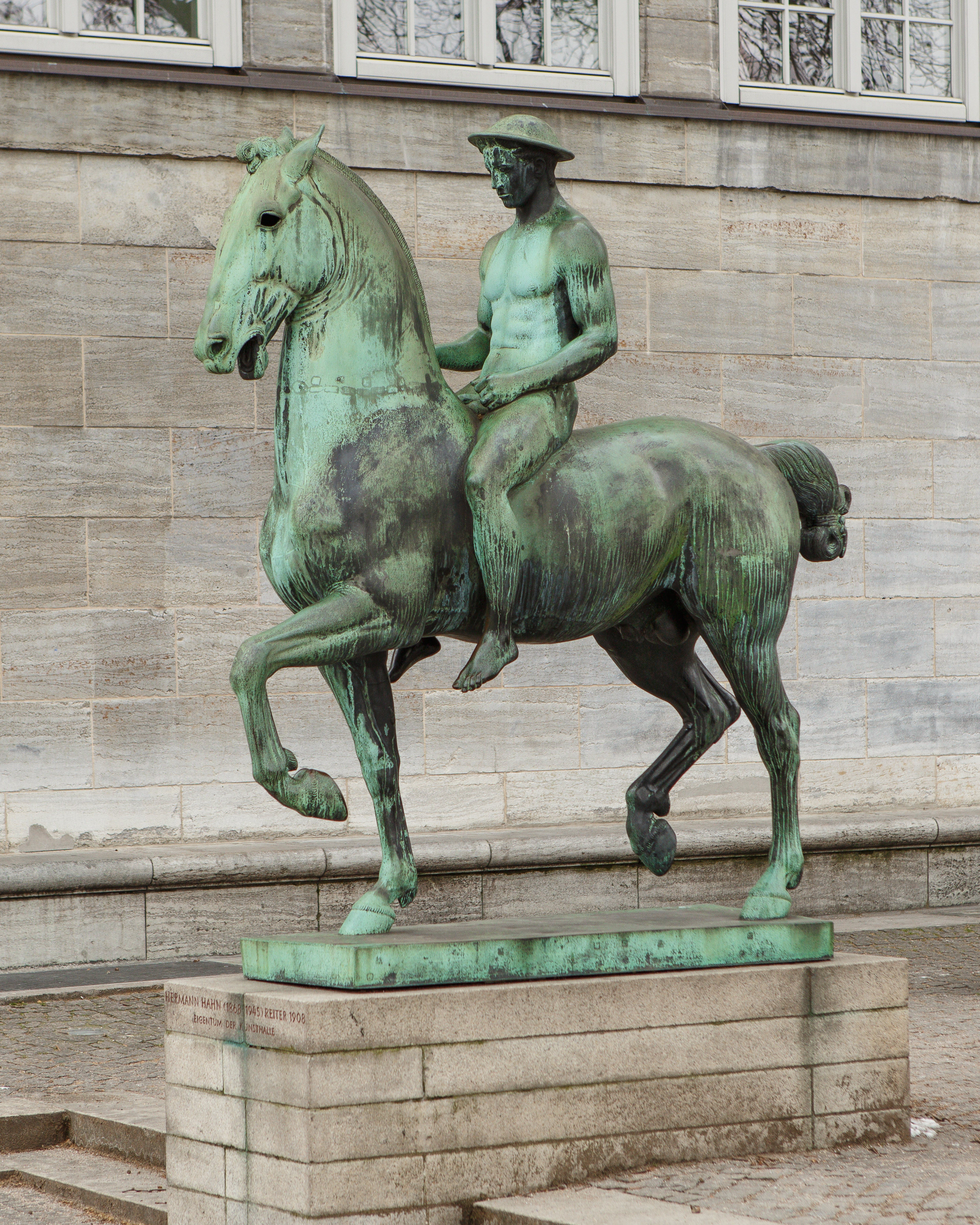 Sculpture "Der junge Reiter" by Hermann Hahn, Hamburg 1908